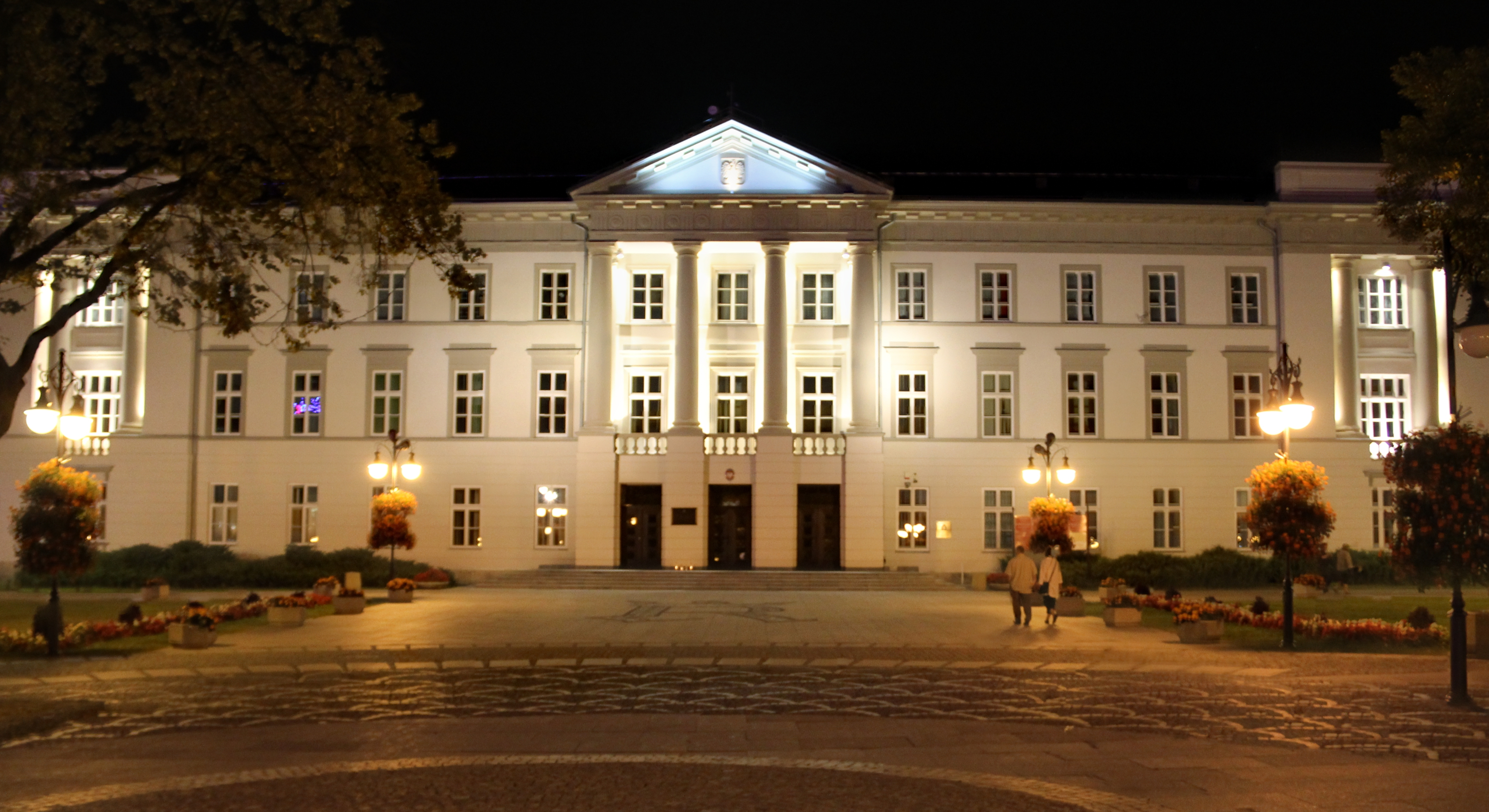 Building of city council built in the years 1825–1827, designed in classical style by Antonio Corazzi